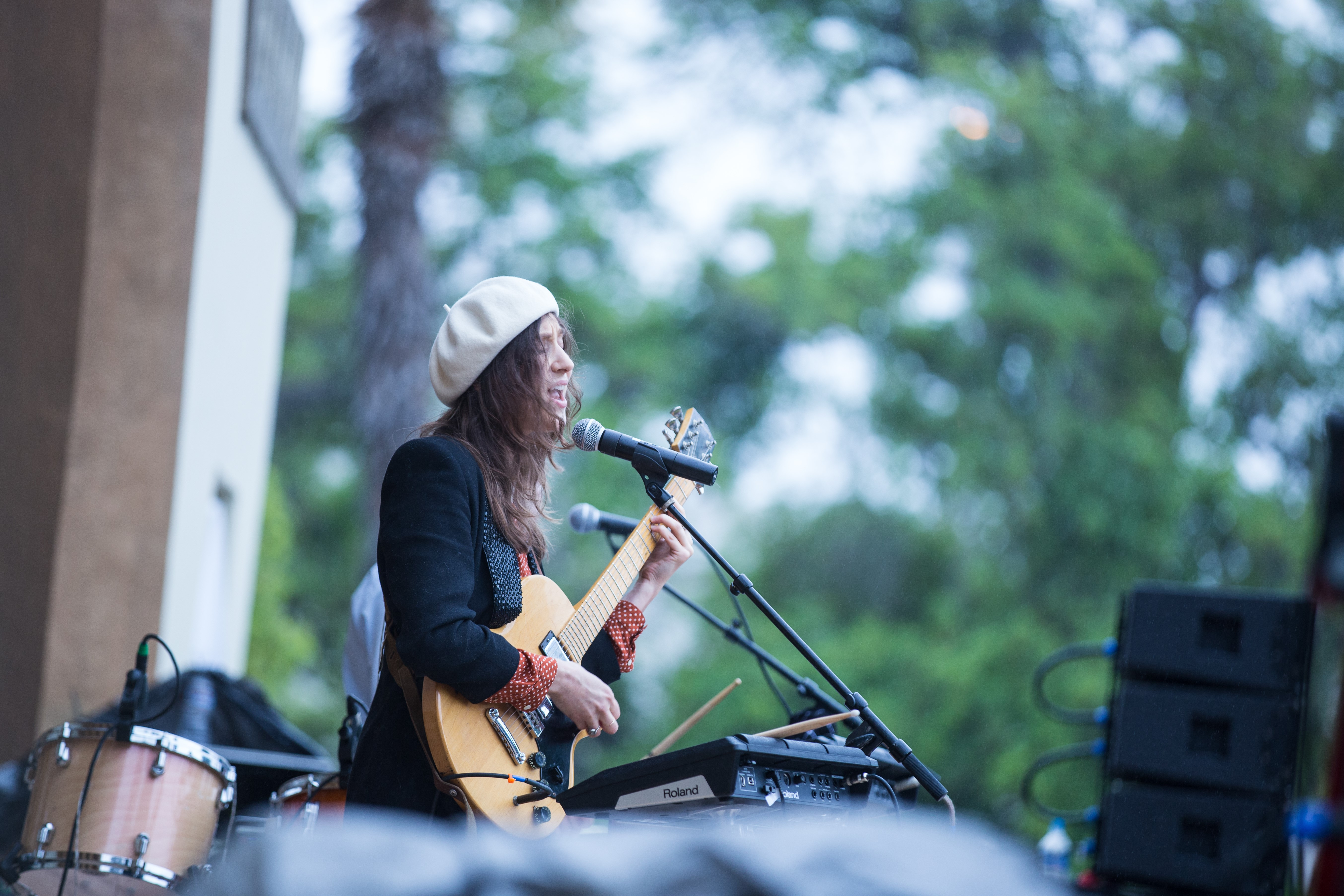 CLARA-NOVA performance photo from Pasadena, California